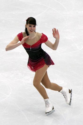 Sarah Hecken at the 2010 Winter Olympics.